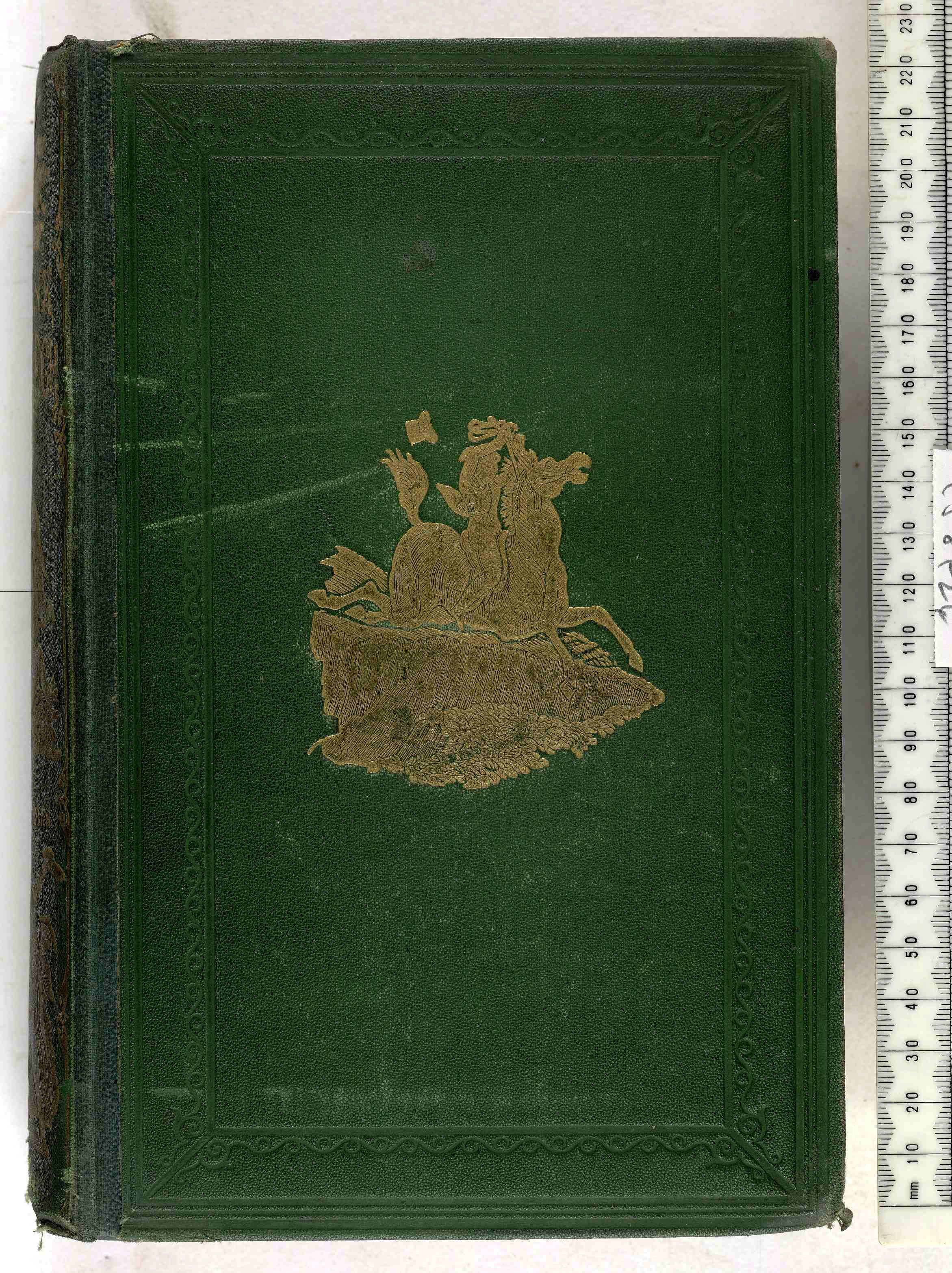 Style: Pictorial; Caption: Upper cover; Colour: Green; Edge: Unspecified